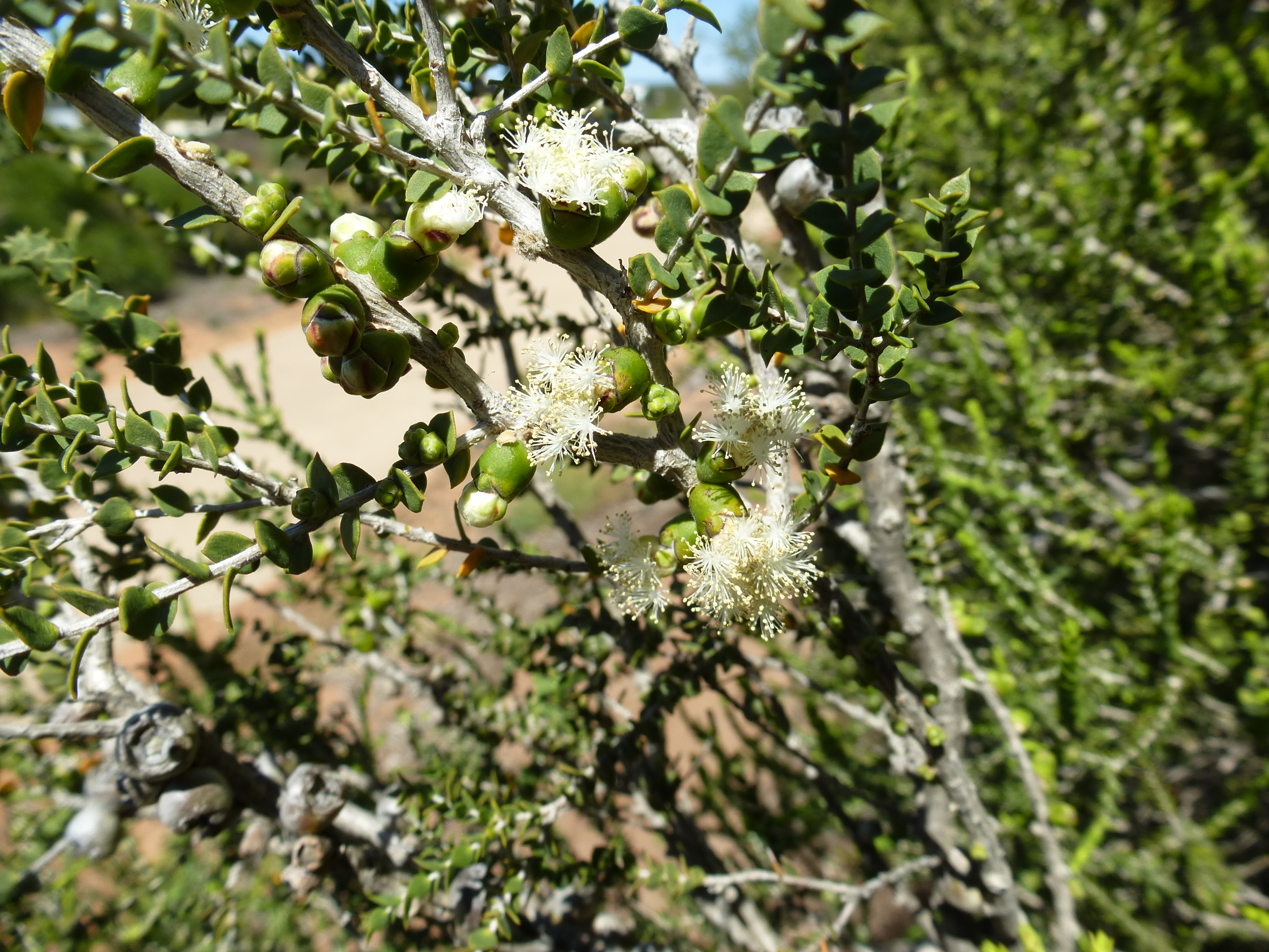 Melaleuca cardiophylla growing on the coast near Kalbarri